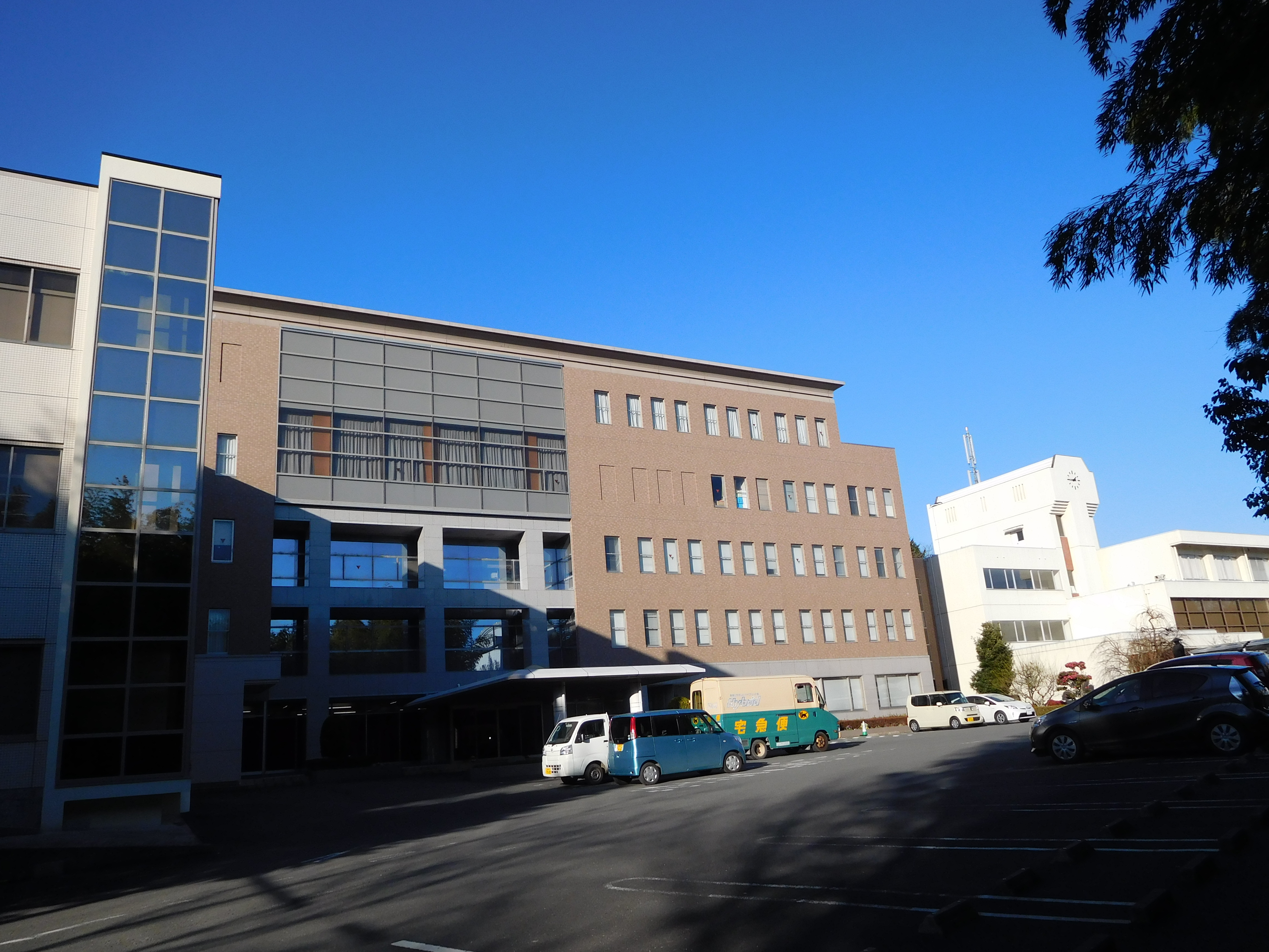 This is the first building of Takada Junior College in Tsu, Mie, Japan.